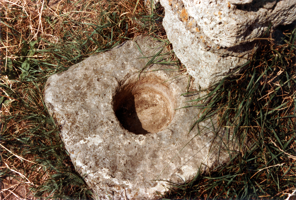 Hinge pivot at the Roman fort of Eining, Bavaria; ca. 150 AD.